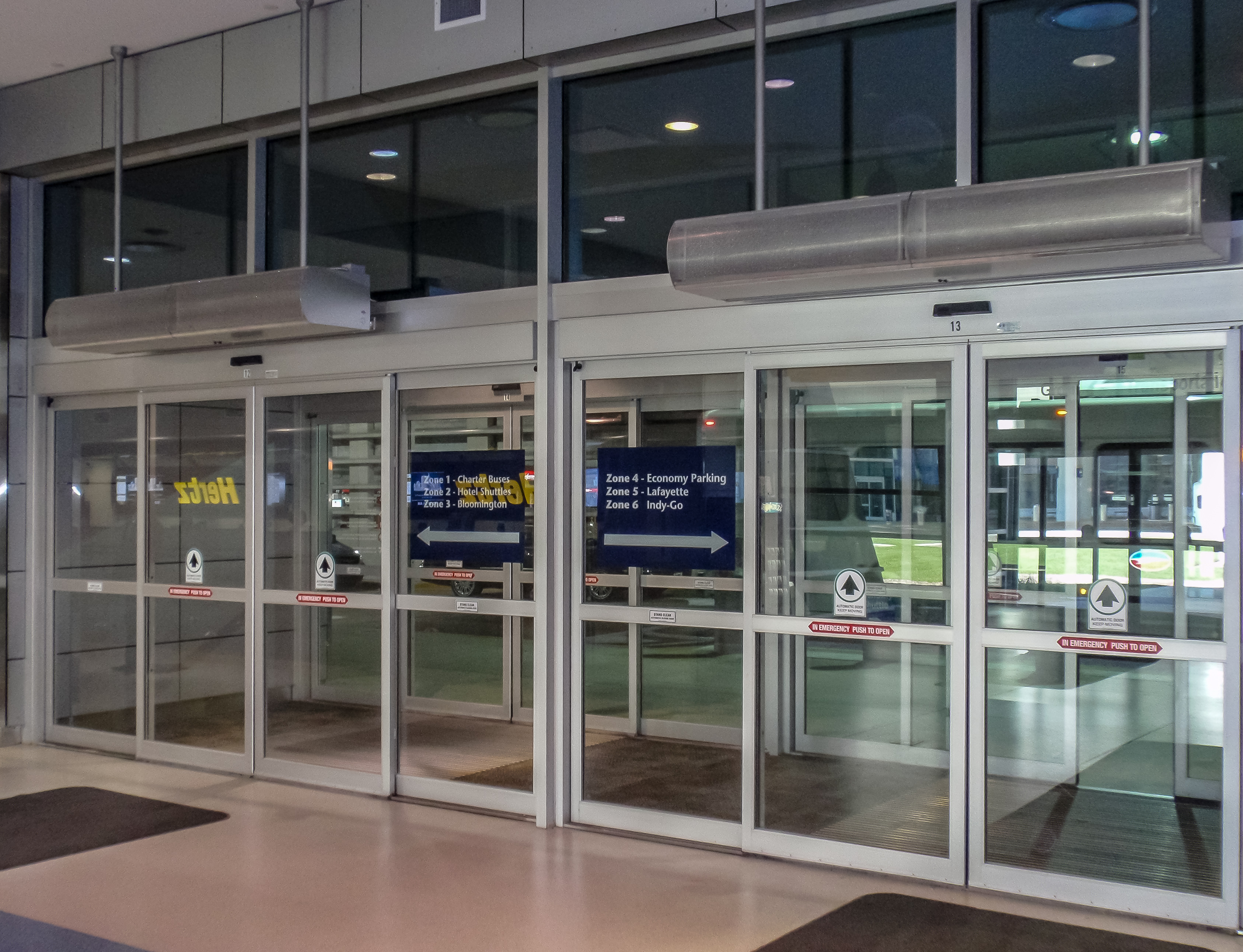 Architectural High Performance 10 Air Curtain over entrance to airport